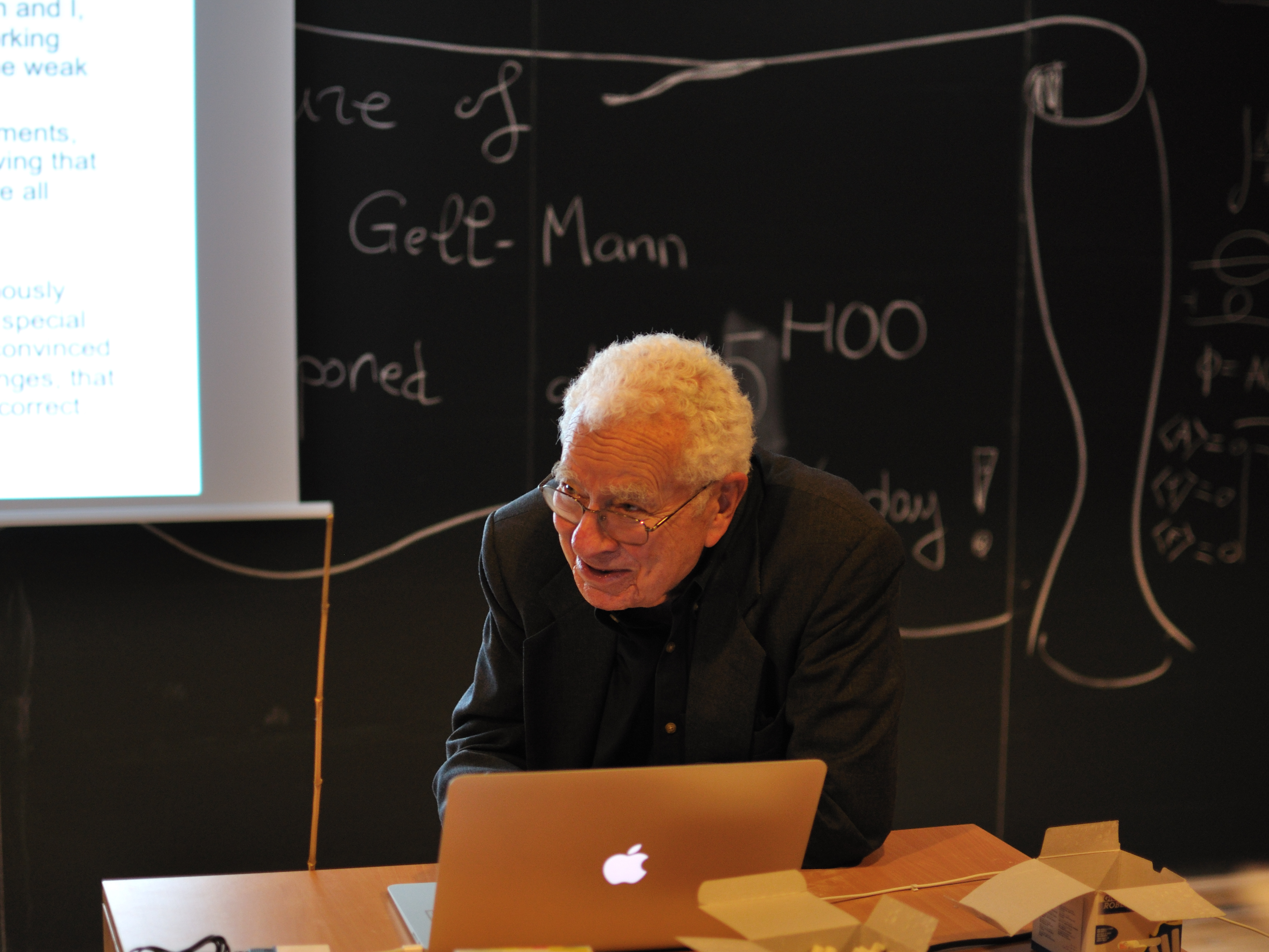 Murray Gell-Mann visiting ICRANet site in Nice, France, 07/06/2012 Lection